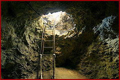 Wilson Cave - Doncaster Adit is where a number of tunnels join the Great North Road within the Rock of Gibraltar